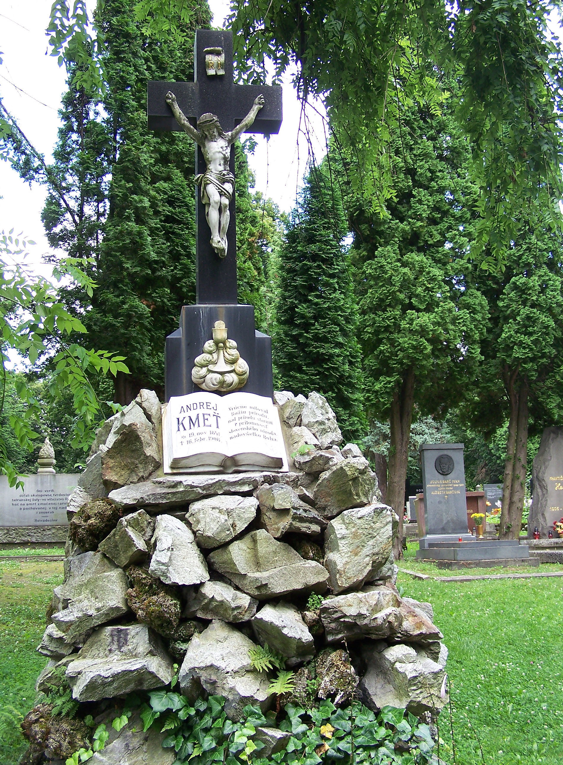 Grave of Andrej Kmeť at the National Cemetery in Martin, Slovakia